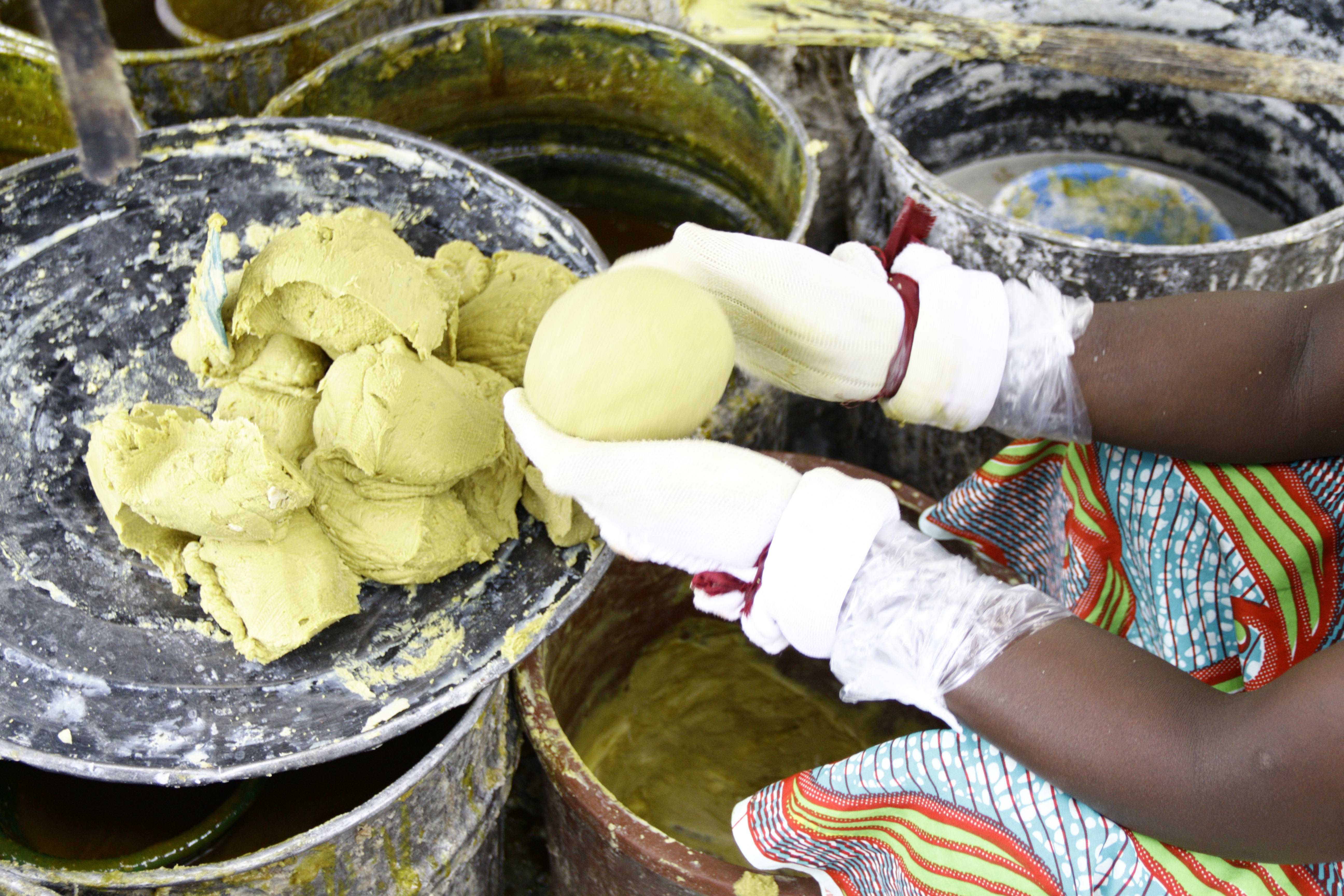 This is an image of food from Côte d'Ivoire